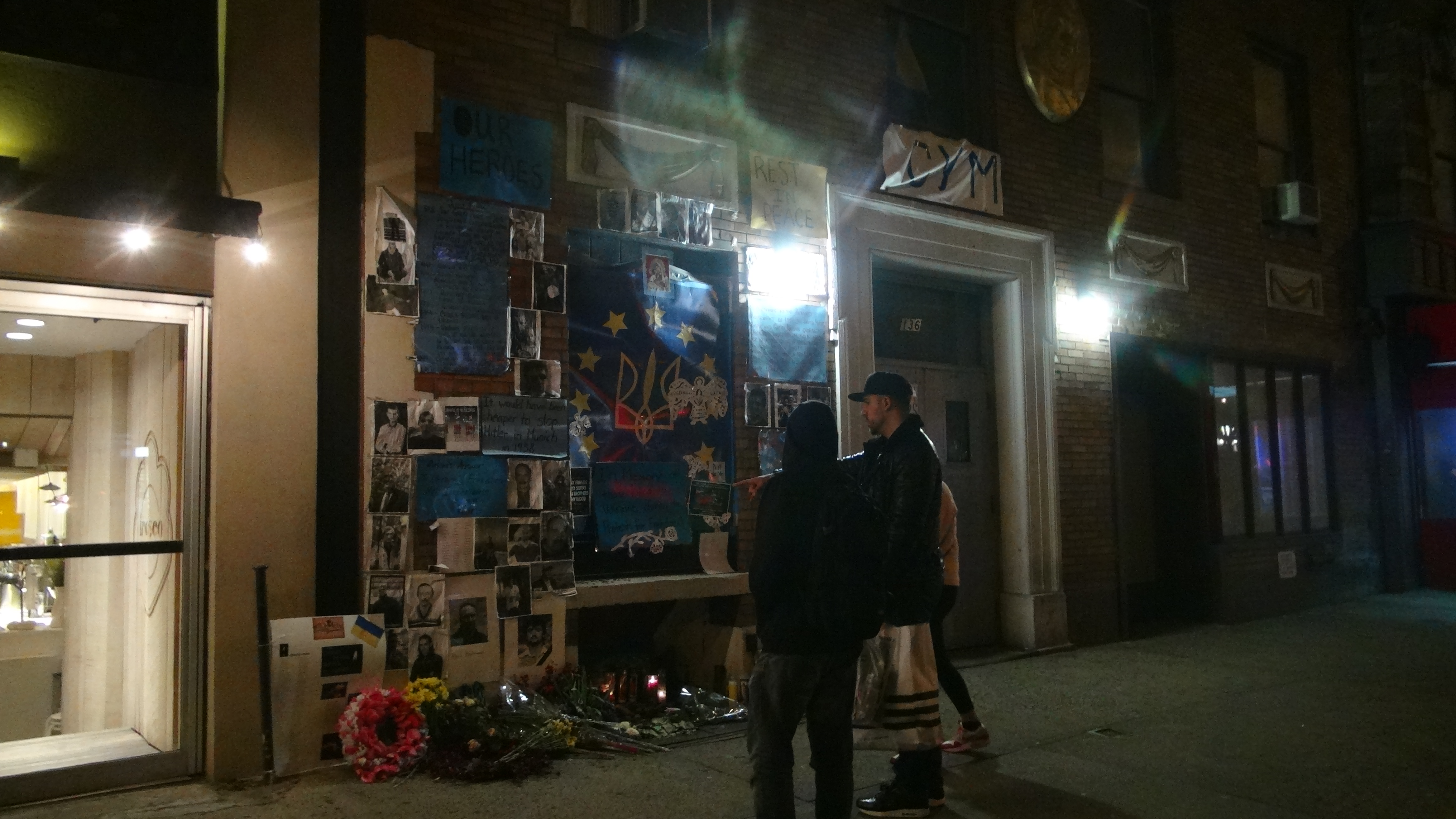 Ukraine display in the East Village, 4/8/2014, on 2nd avenue, by the Ukrainian National Home